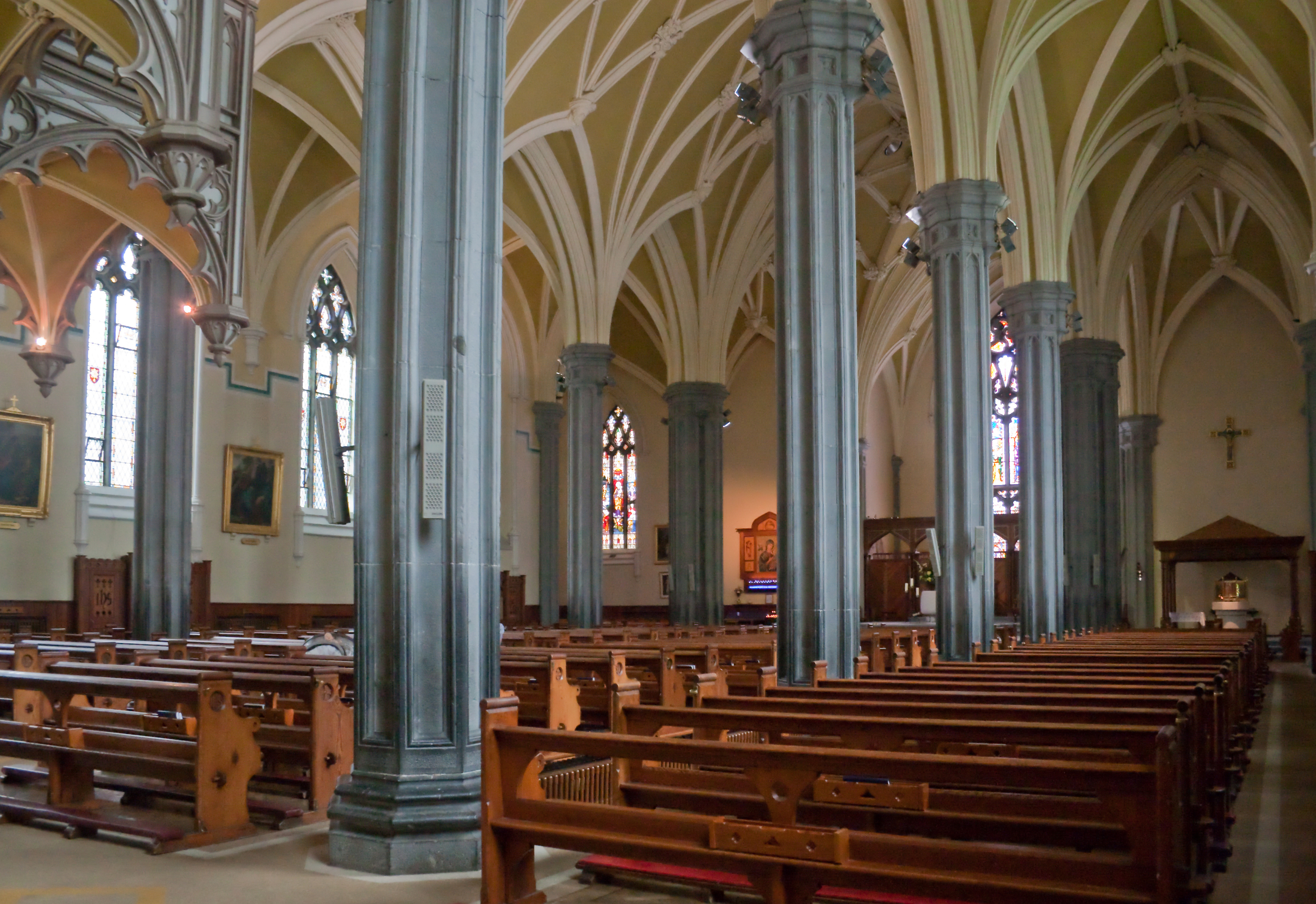 Tuam, County Galway, Ireland View from the south aisle through the nave, looking north-east.